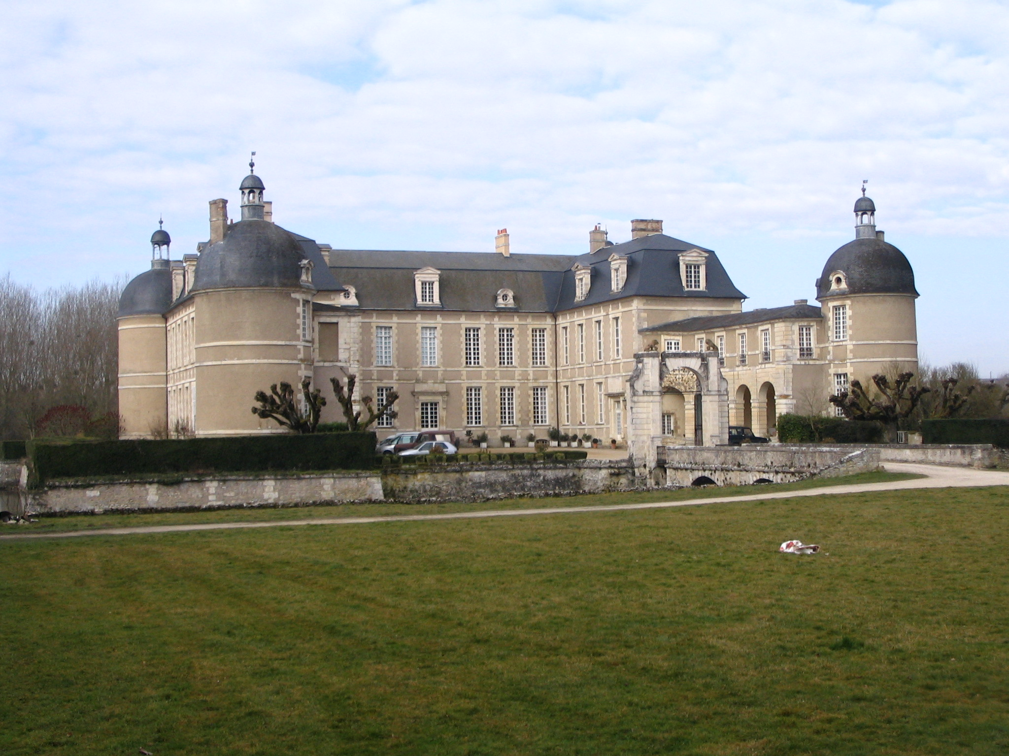 The Ferté Castle, near Reuilly, Indre, France.